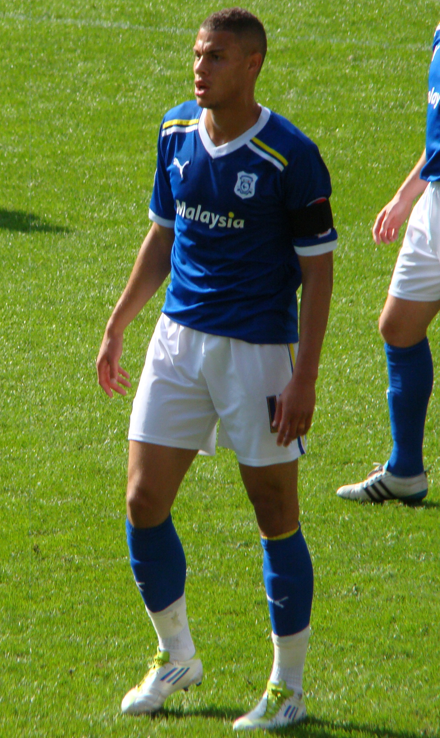 Rudy Gestede from 25/09/11 Cardiff V Leicester, Championship, Cardiff City Stadium, Cardiff, Wales